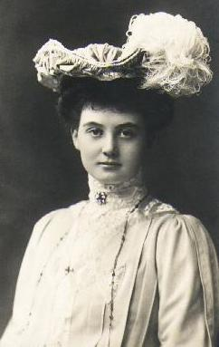 Princess Alexandra of Hanover and Cumberland (1882-1963), was married to Friedrich Franz IV, Grand Duke of Mecklenburg-Schwerin. She is interred as Alexandra, Grossherzogin von Mecklenburg in Glücksburg